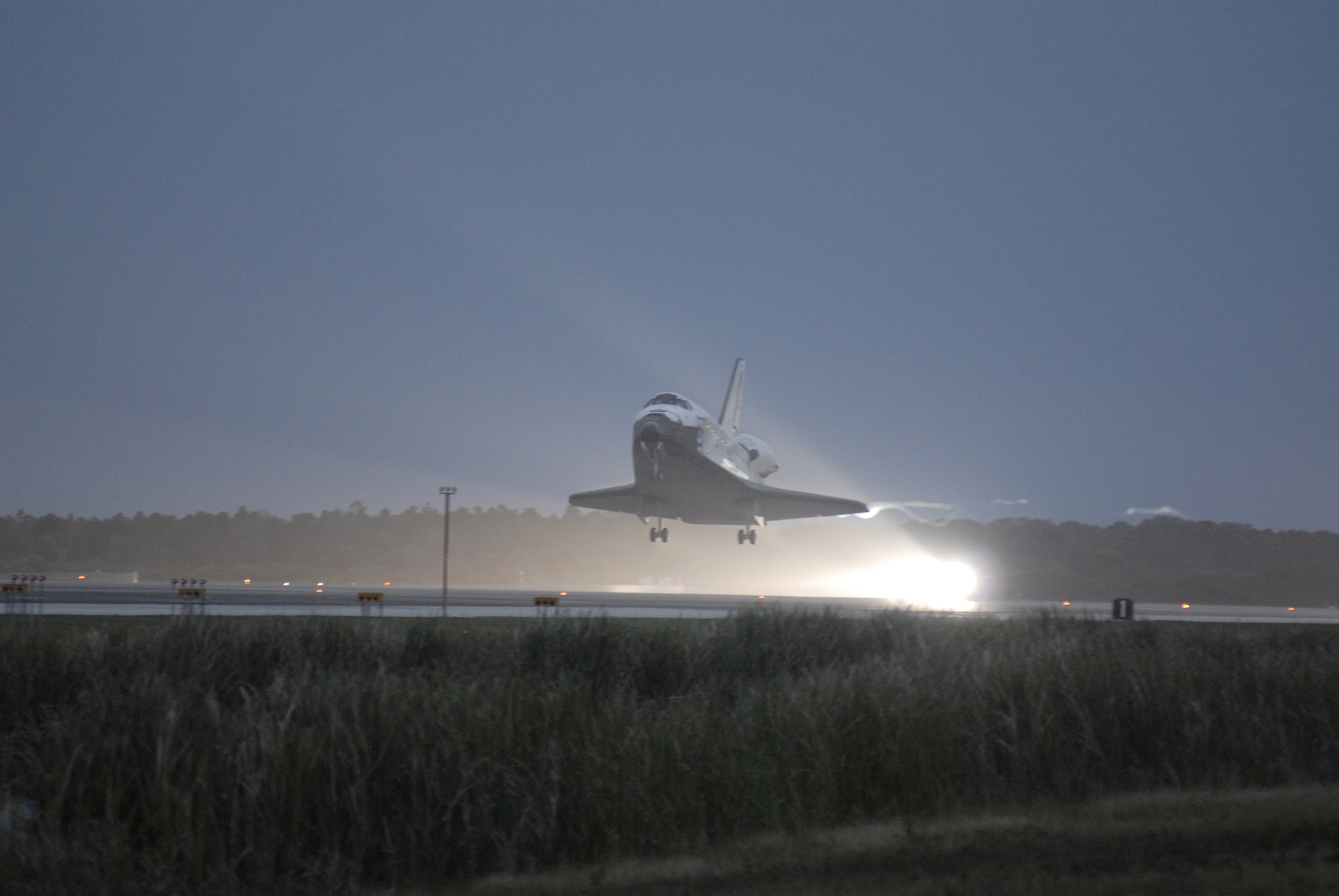 NASA PHOTO NO: KSC-06PD-2852 KENNEDY SPACE CENTER, FLA. -- On the shortest day of the year, Discovery touches down on Runway 15 at NASA Kennedy Space Center's Shuttle Landing Facility as the sun sets, concluding mission STS-116. Aboard are Commander Mark Polansky, Pilot William Oefelein, and Mission Specialists Robert Curbeam, Joan Higginbotham, Nicholas Patrick and Christer Fuglesang, who represents the European Space Agency, as well as Thomas Reiter, who is returning from a 6-month stay on the International Space Station. During the mission, three spacewalks attached the P5 integrated truss structure to the station, and completed the rewiring of the orbiting laboratory’s power system. A fourth spacewalk retracted a stubborn solar array. Main gear touchdown was at 5:32 p.m. EST. Nose gear touchdown was at 5:32:12 p.m. and wheel stop was at 5:32:52 p.m. At touchdown -- nominally about 2,500 ft. beyond the runway threshold -- the orbiter is traveling at a speed ranging from 213 to 226 mph. Discovery traveled 5,330,000 miles, landing on orbit 204. Mission elapsed time was 12 days, 20 hours, 44 minutes and 16 seconds. This is the 64th landing at KSC.